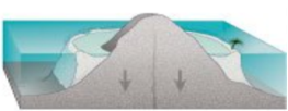 Internationalization of the diagram:Atoll forming. 1=Volcanic Island 2=Fringing reef 3=Barrier reeef Caption: Coral atolls develop from reefs fringing volcanic islands. As first hypothesized by Charles Darwin, and confirmed by ocean drilling done by British scientists a century ago, reefs fringing volcanic islands build vertically to sea level, forming steepwalled barrier reefs. As a volcanic island subsides, or sinks, with time, the growing reef keeps pace with the rising water level. When the island eventually submerges, the ring-shaped reef forms an atoll with a central lagoon.